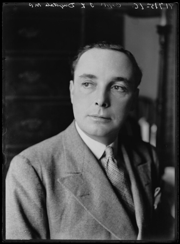 Lord Crathorne